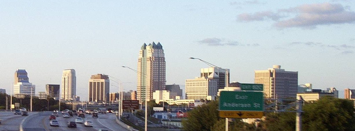 Orlando Florida skyline: It was cropped using Paint Shop Pro 9. The image needed cropping to emphasize the skyline and reduce the amount of sky that was overpowering the image and made the image too large to see any detail in smaller versions. This version now looks more like other skyline images found in Wikipedia and other Wikis.